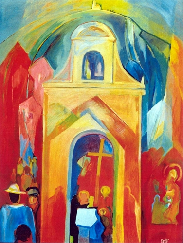 V. Valeš - art